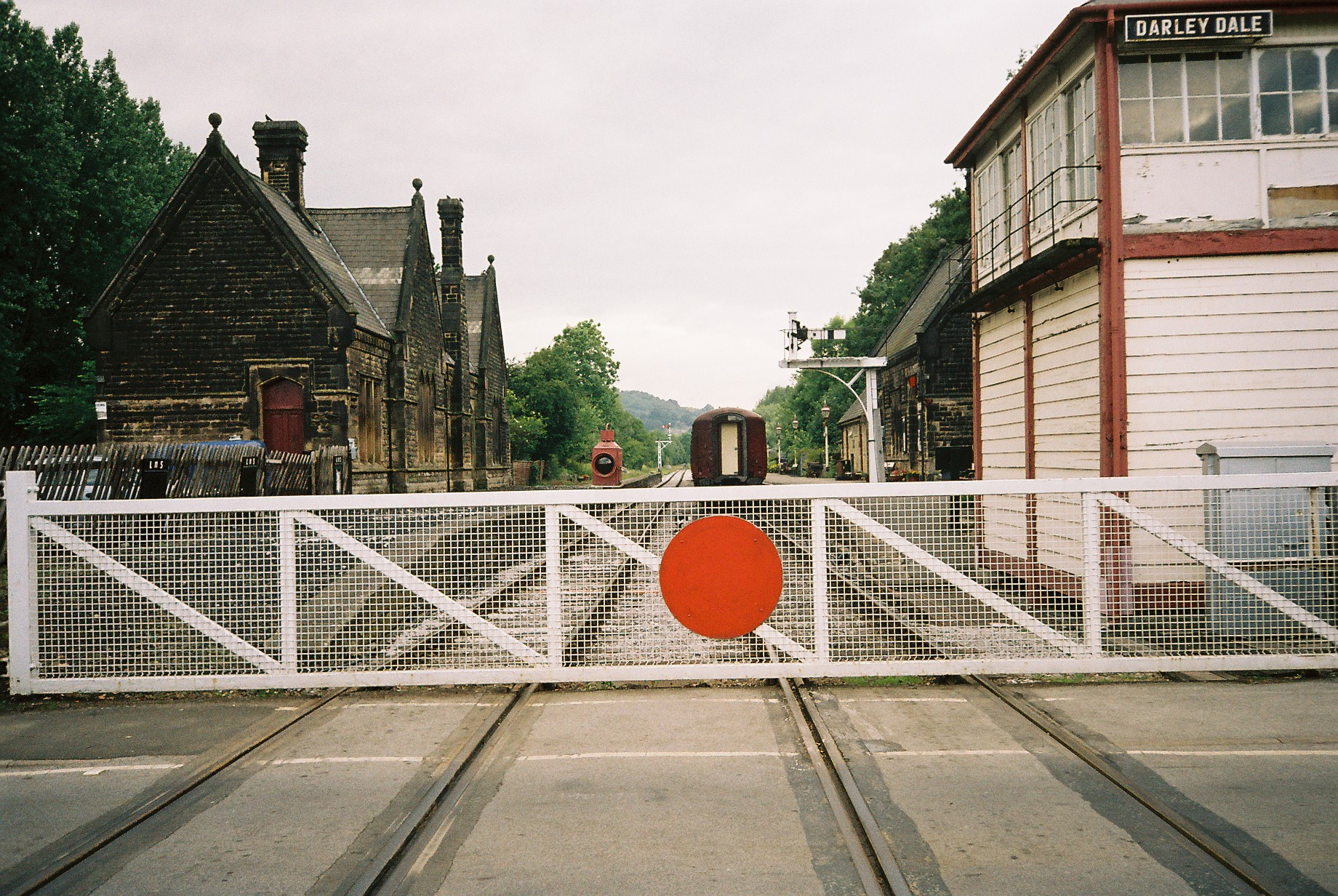 My own photography, June 07, Darley Dale